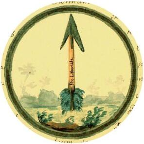 Coat of Arms of Akmenė city in 1792